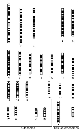 Caryotype humain National Human Genome Research (USA)